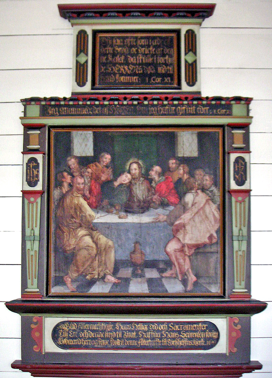 The Cathedral in Thorshavn Faroe - last supper painting Photo by author Jens Christensen